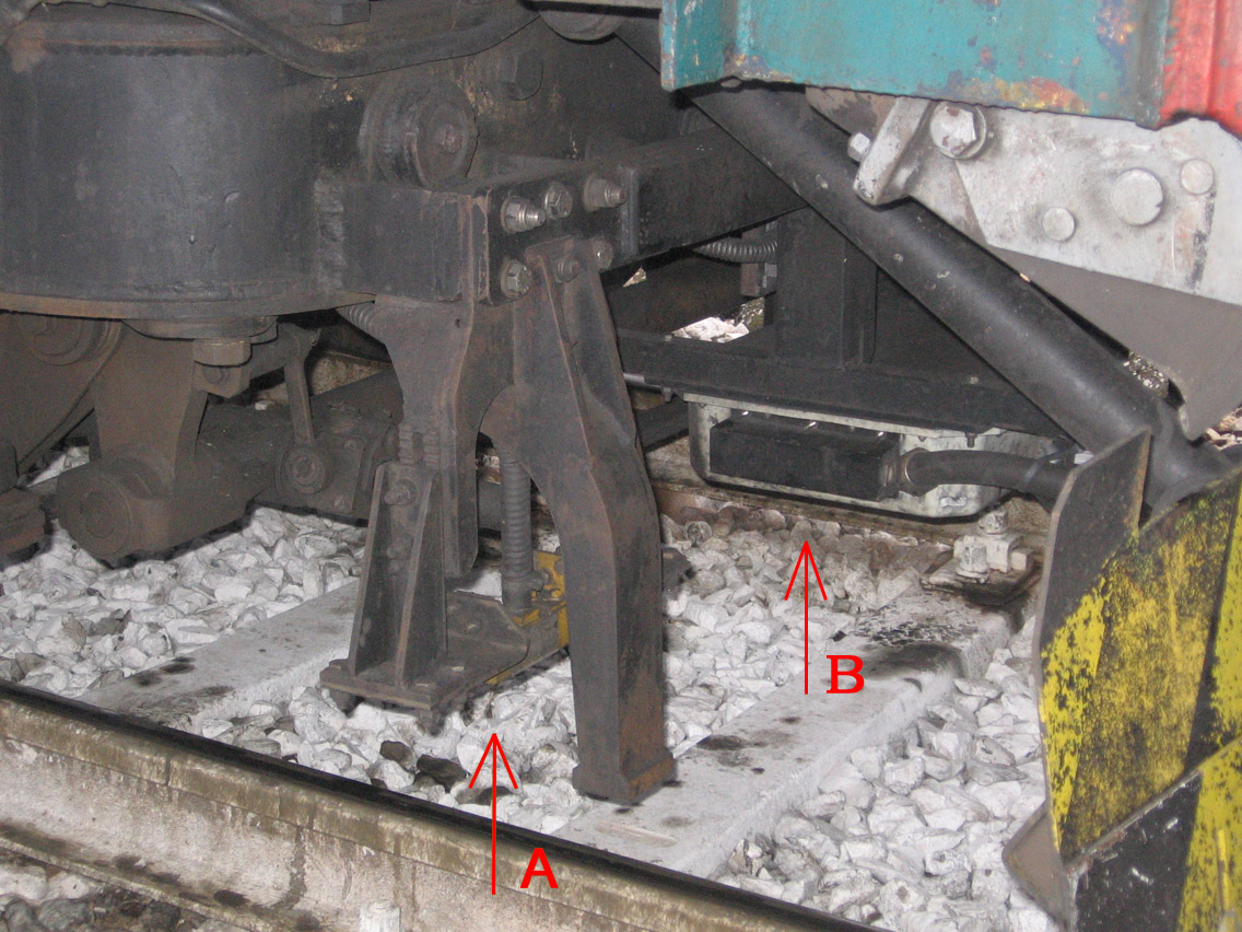 Bogie of E.656.064 FS with antena for signal codes in rails - pos.A and balise transmission module - pos.B